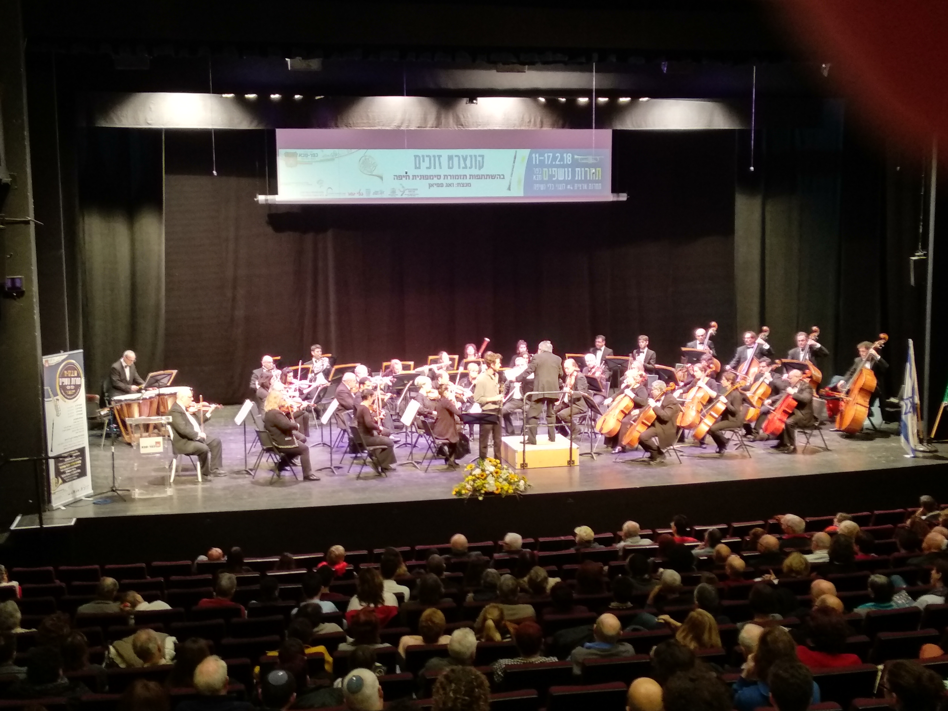 Haifa Symphony Orchestra